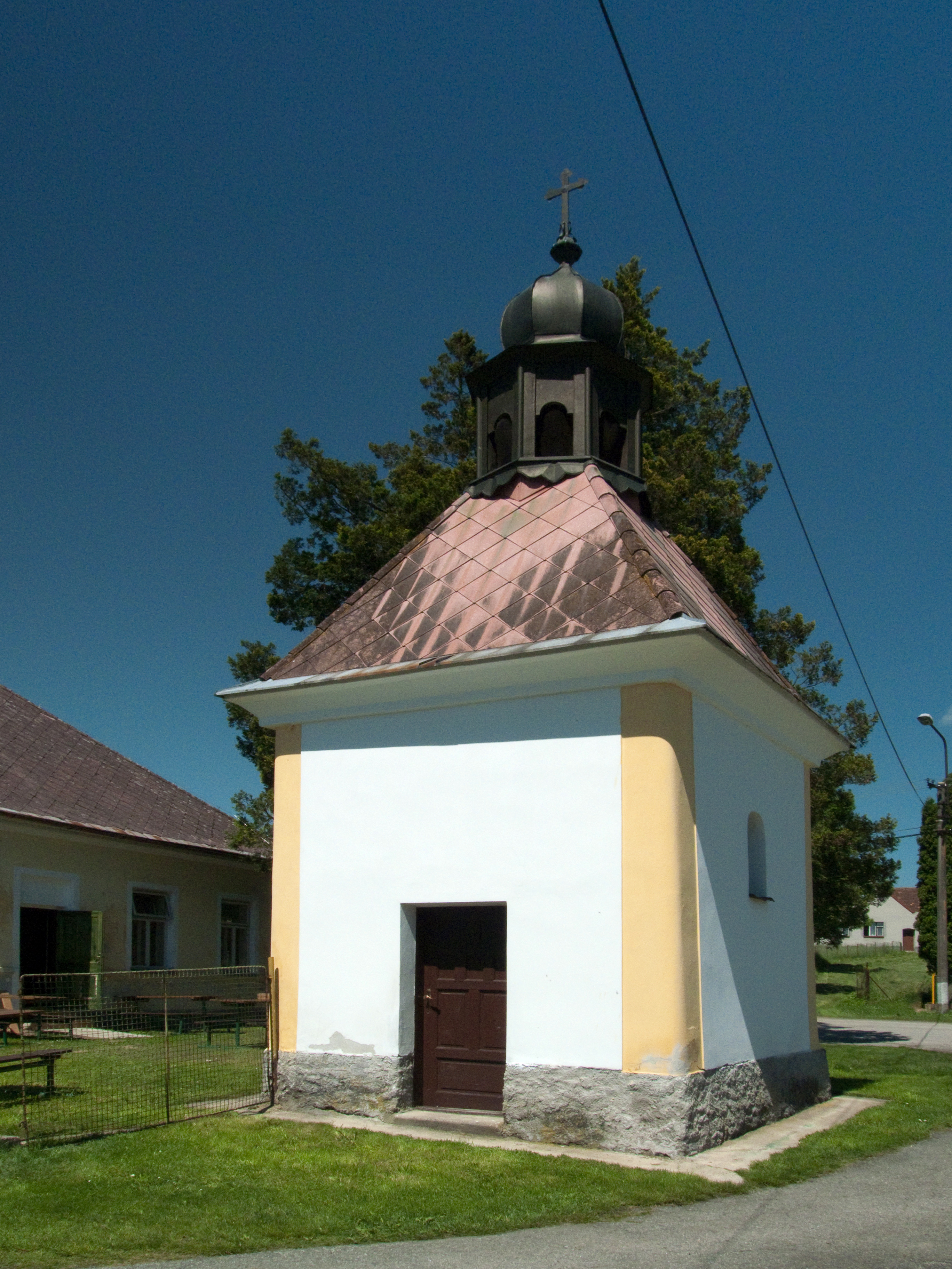 Virgin Mary Chapel in the village of Mezná, Tábor district, Czech Republic